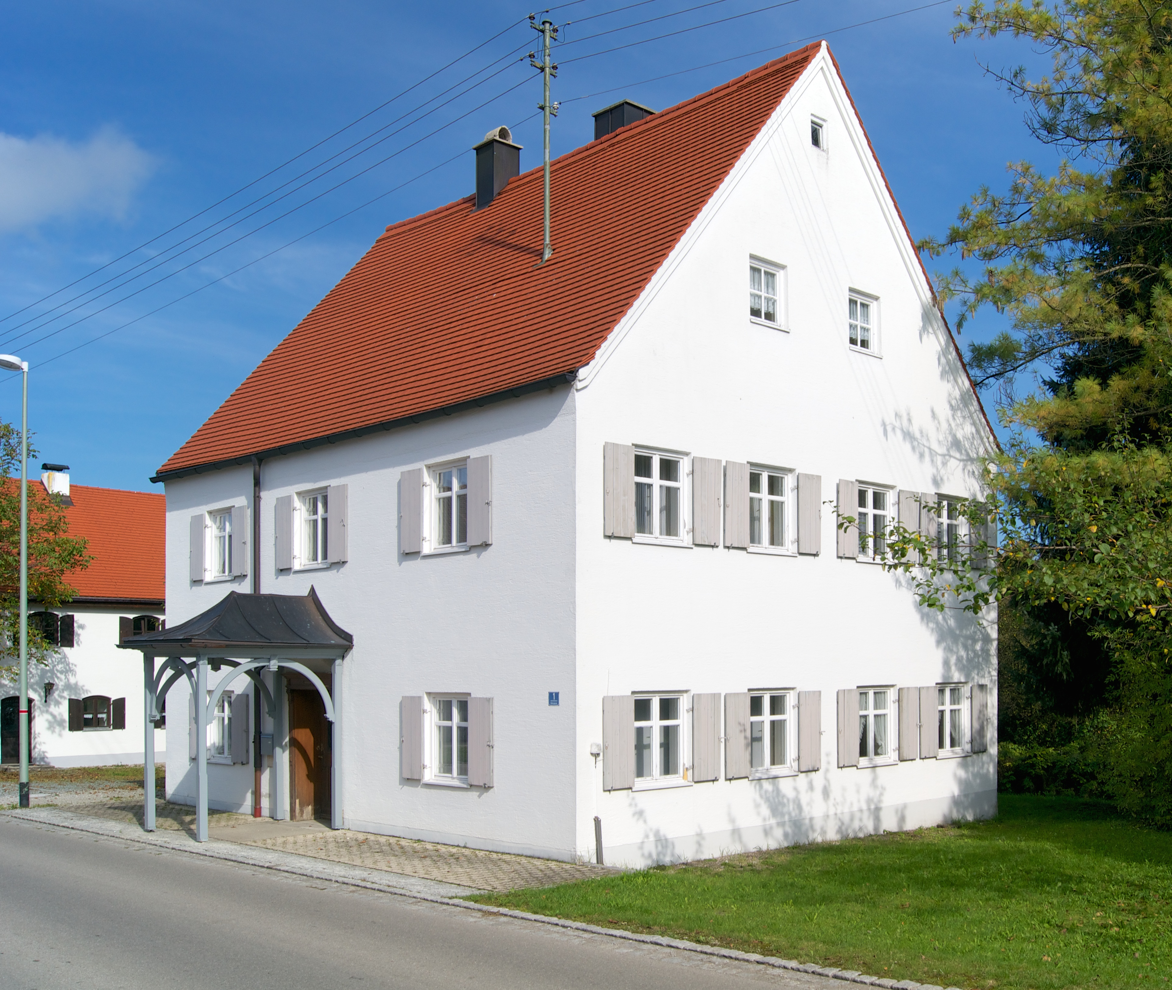 Thaining, Germany, parochial house of Saint Martin church